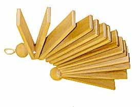 Russian Traditional Instrument Treshchotki